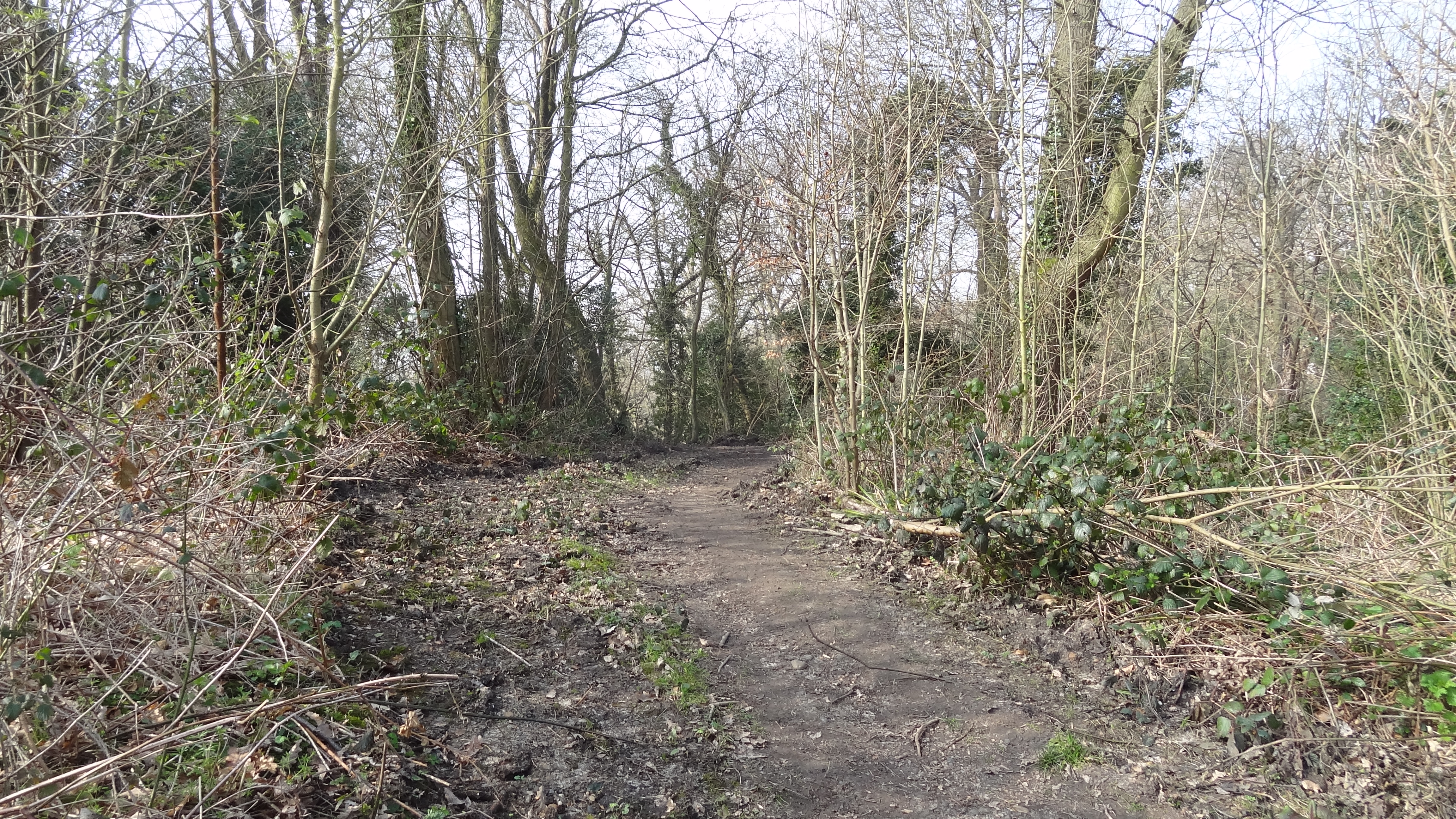 Bramley Bank nature reserve, Selsdon, Croydon, London